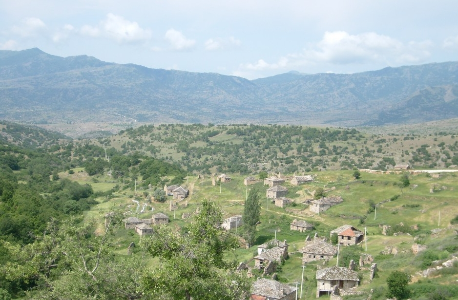 Panorama view of Veprčani